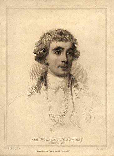 Engraving of the British orientalist Sir William Jones, by the British engraver William Evans, after a portrait by Arthur William Davies. Courtesy of the National Portrait Gallery, London.